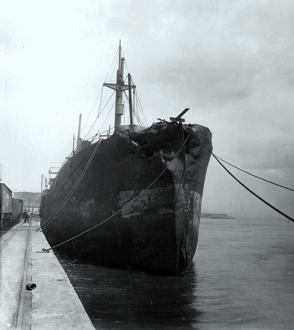 Photograph, Damaged bow of "Storstad", Canadian Vickers, Montreal, QC, 1914, Wm. Notman & Son, Silver salts on glass - Gelatin dry plate process - 25 x 20 cm